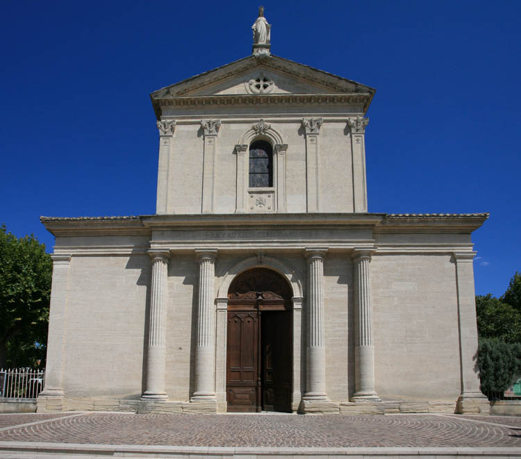 Town of Le Pontet in Vaucluse, France